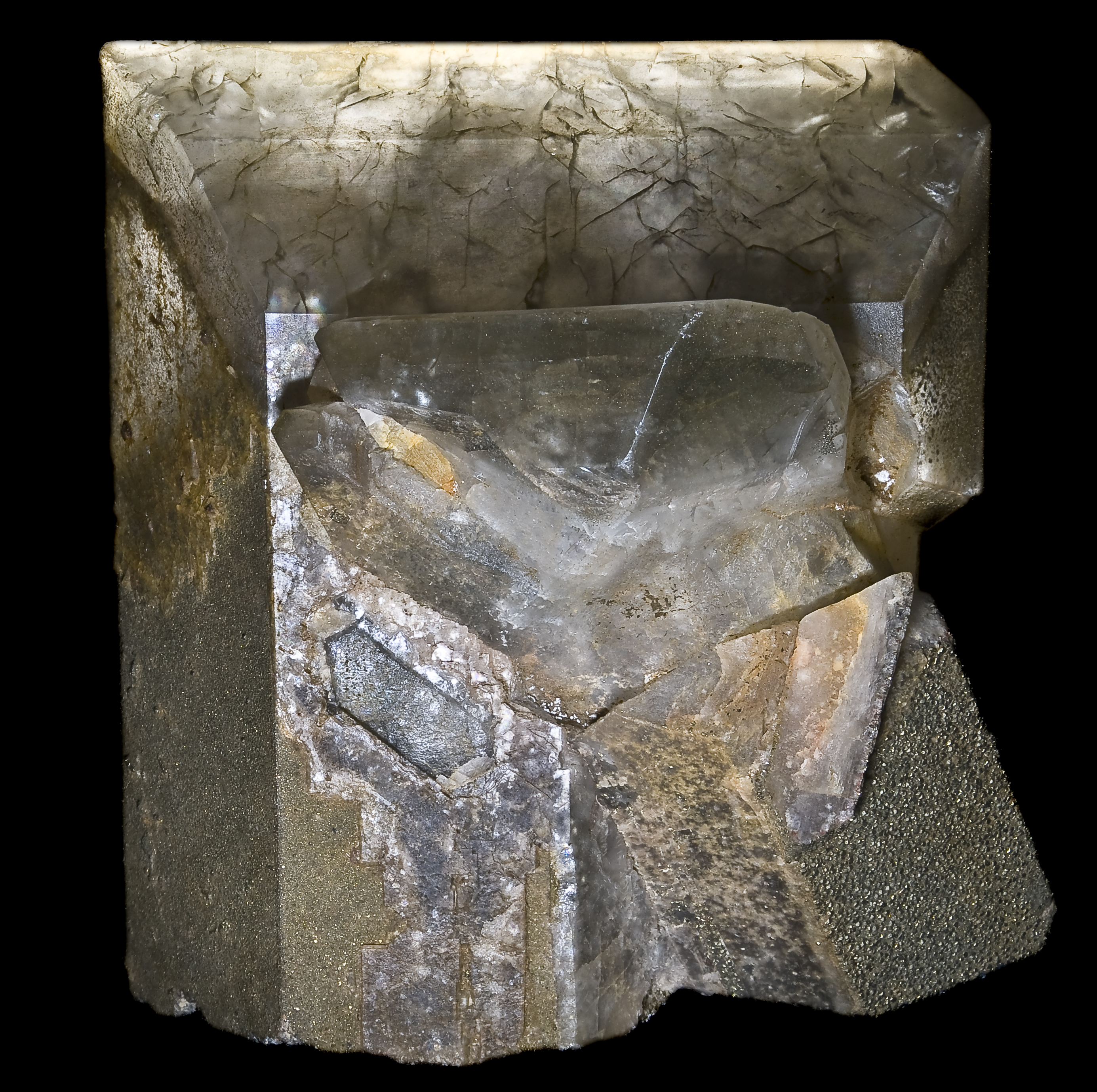 Baryte and Pyrite, Locality : Niobec mine, Saint-Honoré carbonatite complex, Saint-Honoré, Le Fjord-du-Saguenay RCM, Saguenay-Lac-Saint-Jean, Québec, Canada Size : 9.5 x 5.8 x 3.2cm